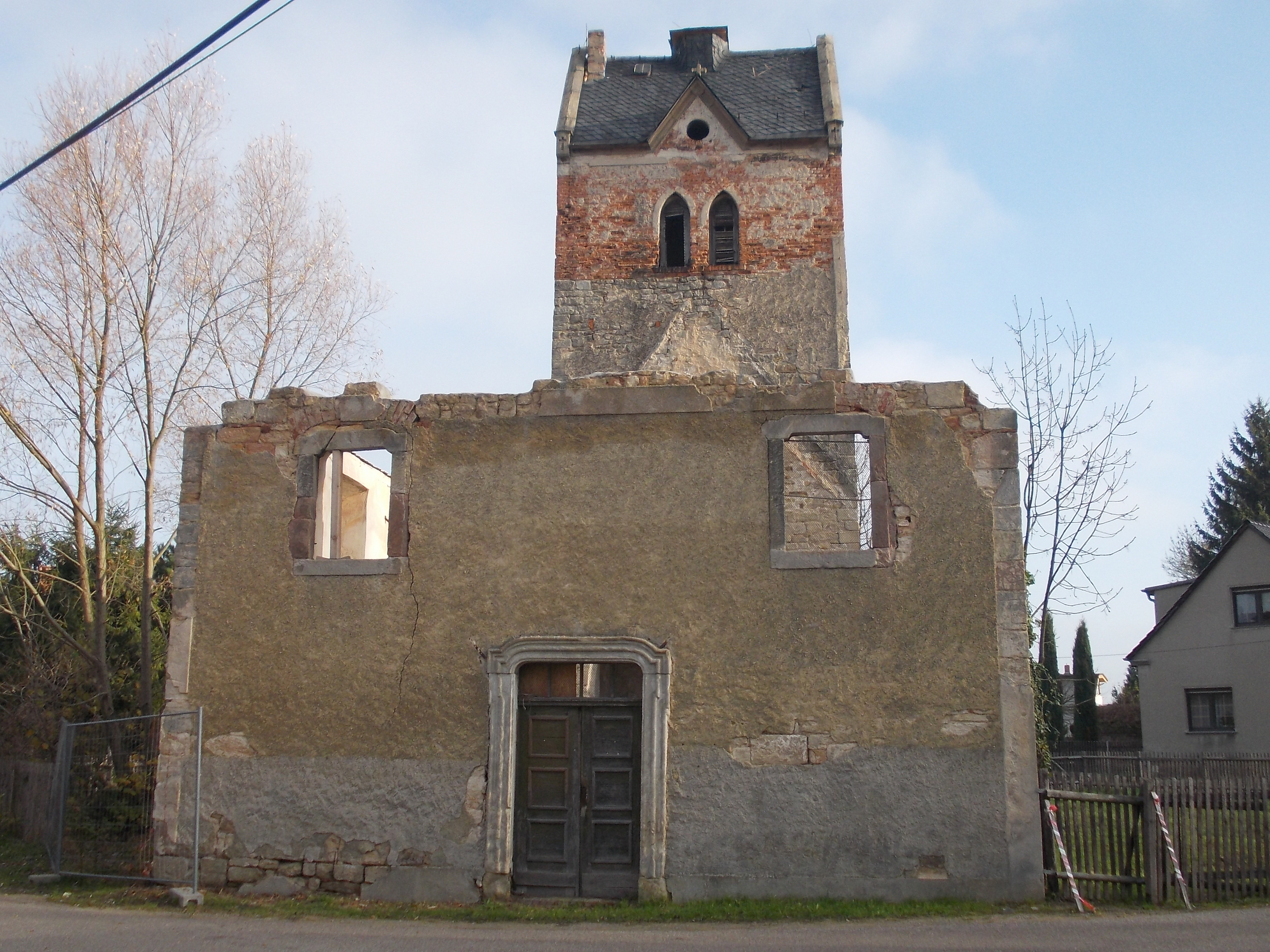 Ruins of Plennschütz church (Teuchern, district: Burgenlandkreis, Saxony-Anhalt)